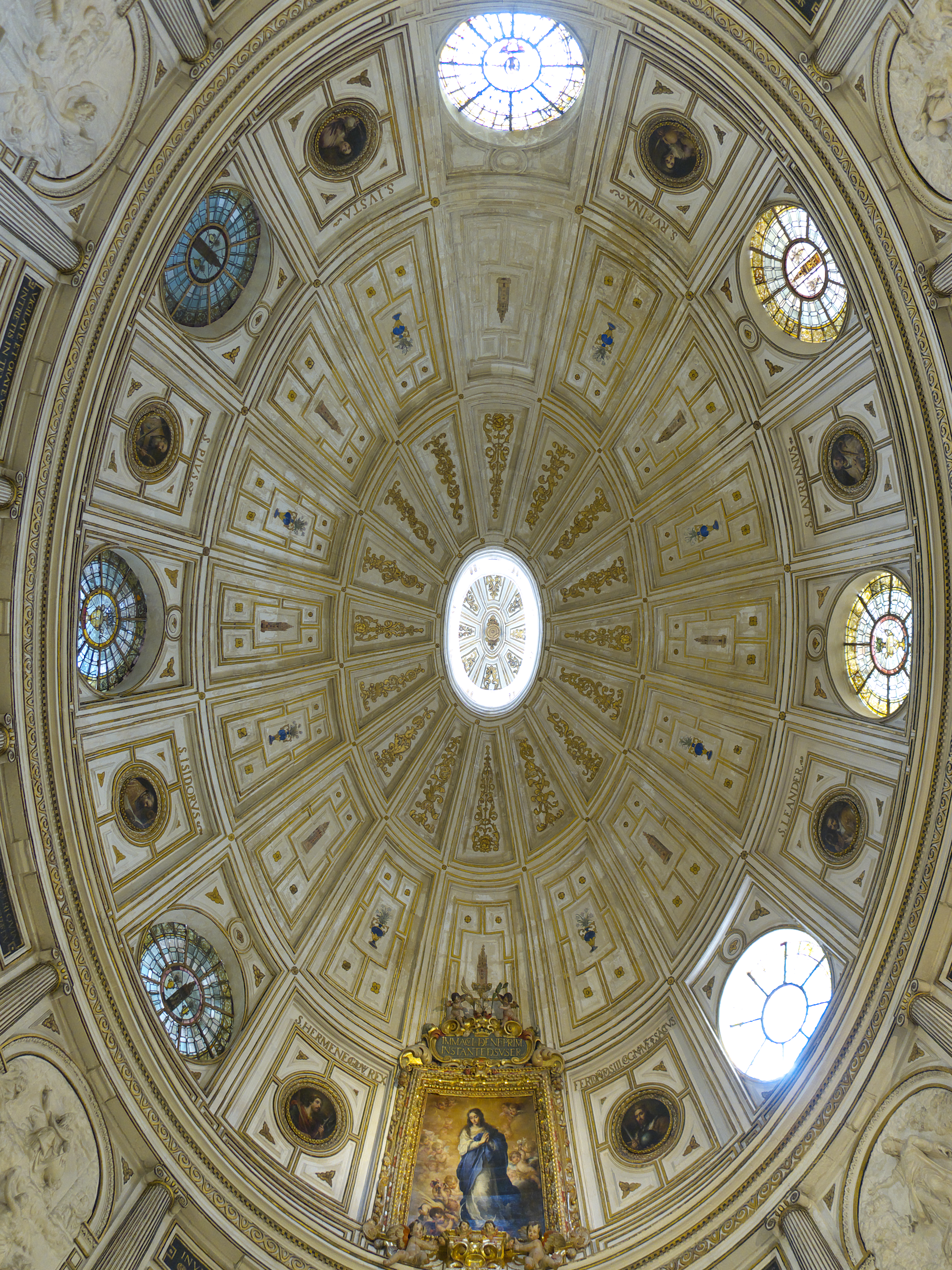 Chapter´s Room